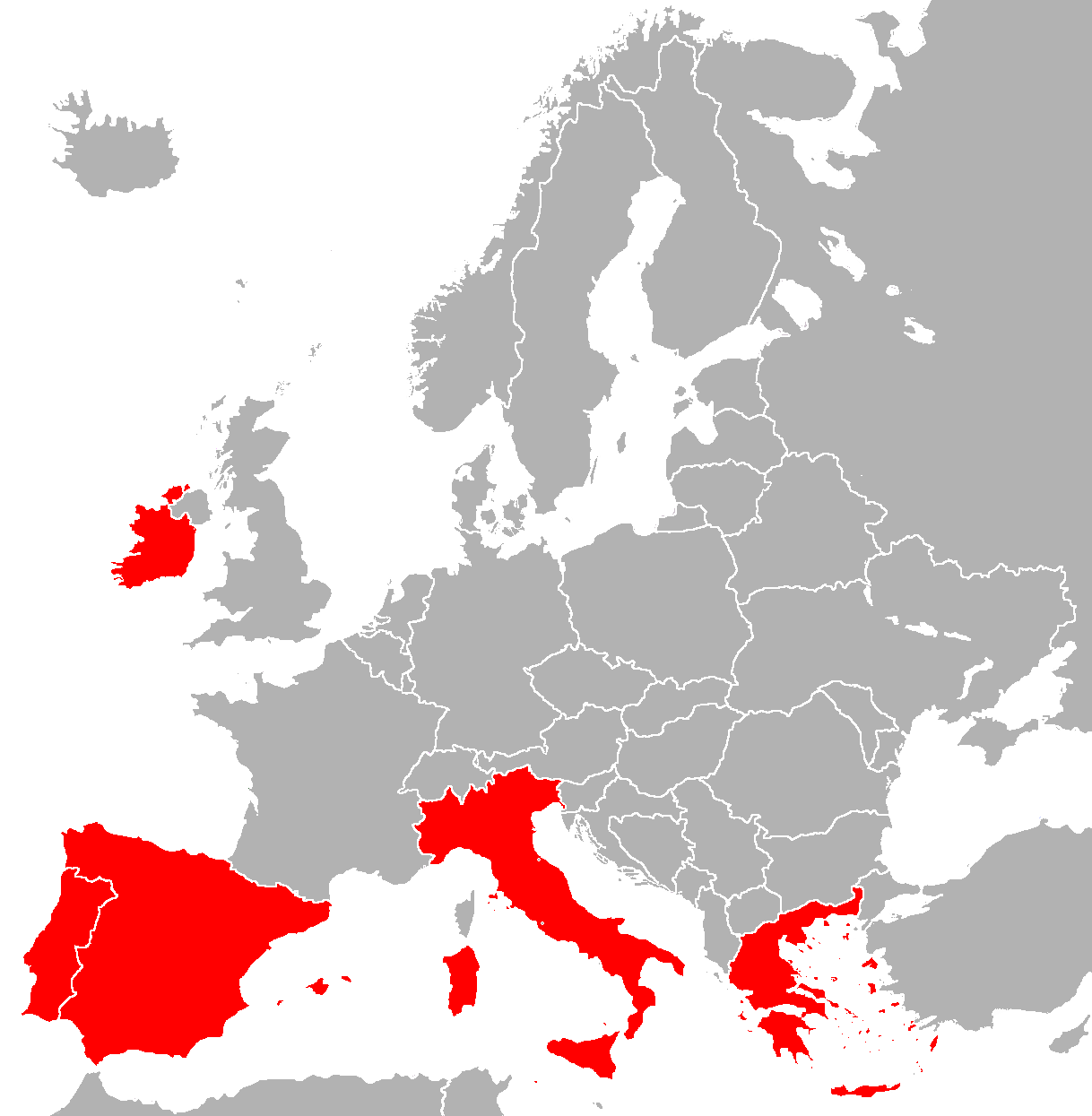 PIIGS countries